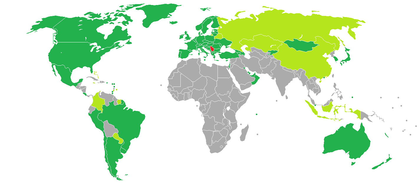 Visa policy of Serbia Serbia Visa-free access for maximum stay of 90 days Visa-free access for maximum stay of 30 days Visa-free access for maximum stay of 14 days Visa-free for holders of diplomatic and official passports only Visa required in advance